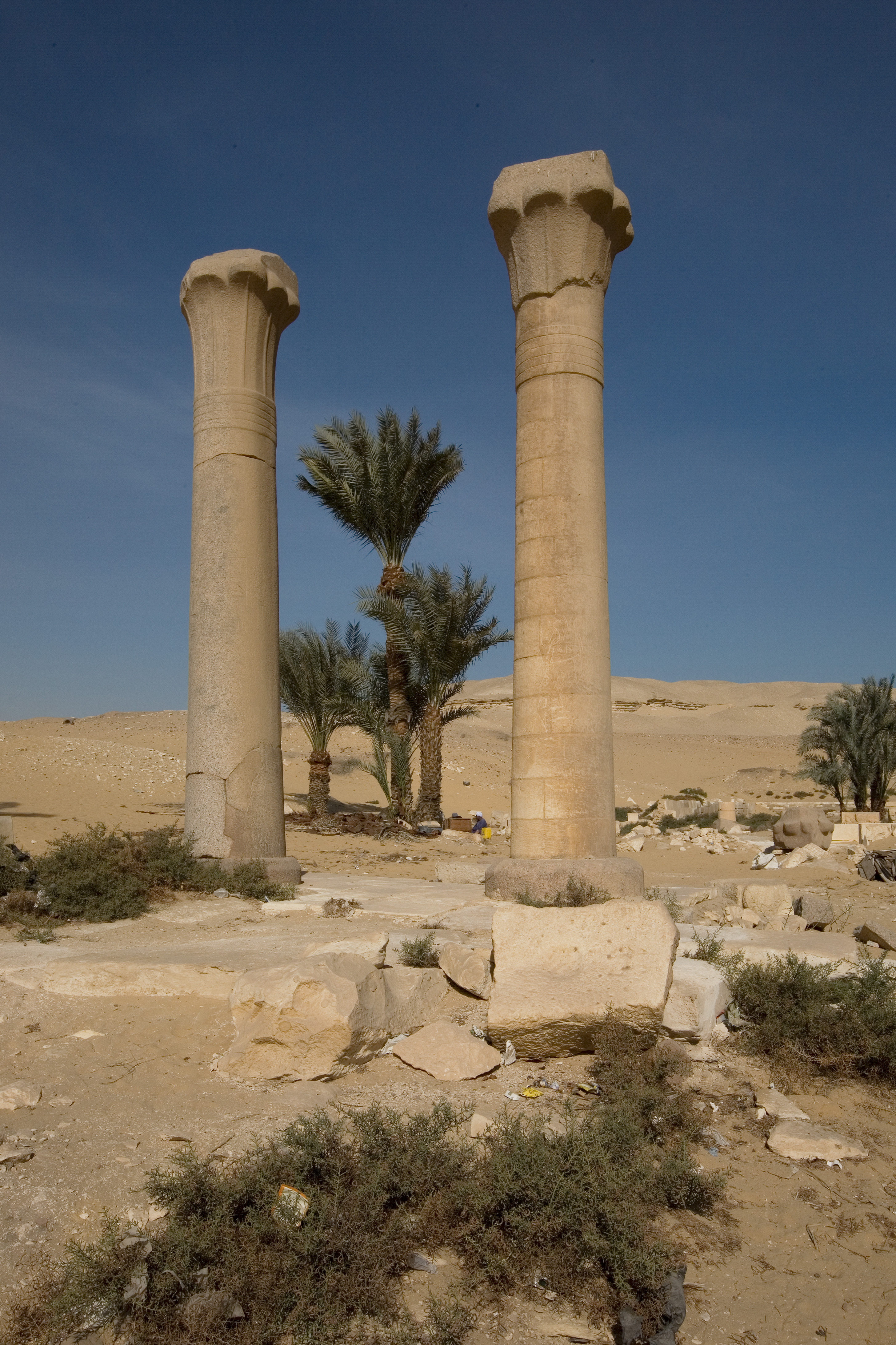 Column, capital, Unis ?